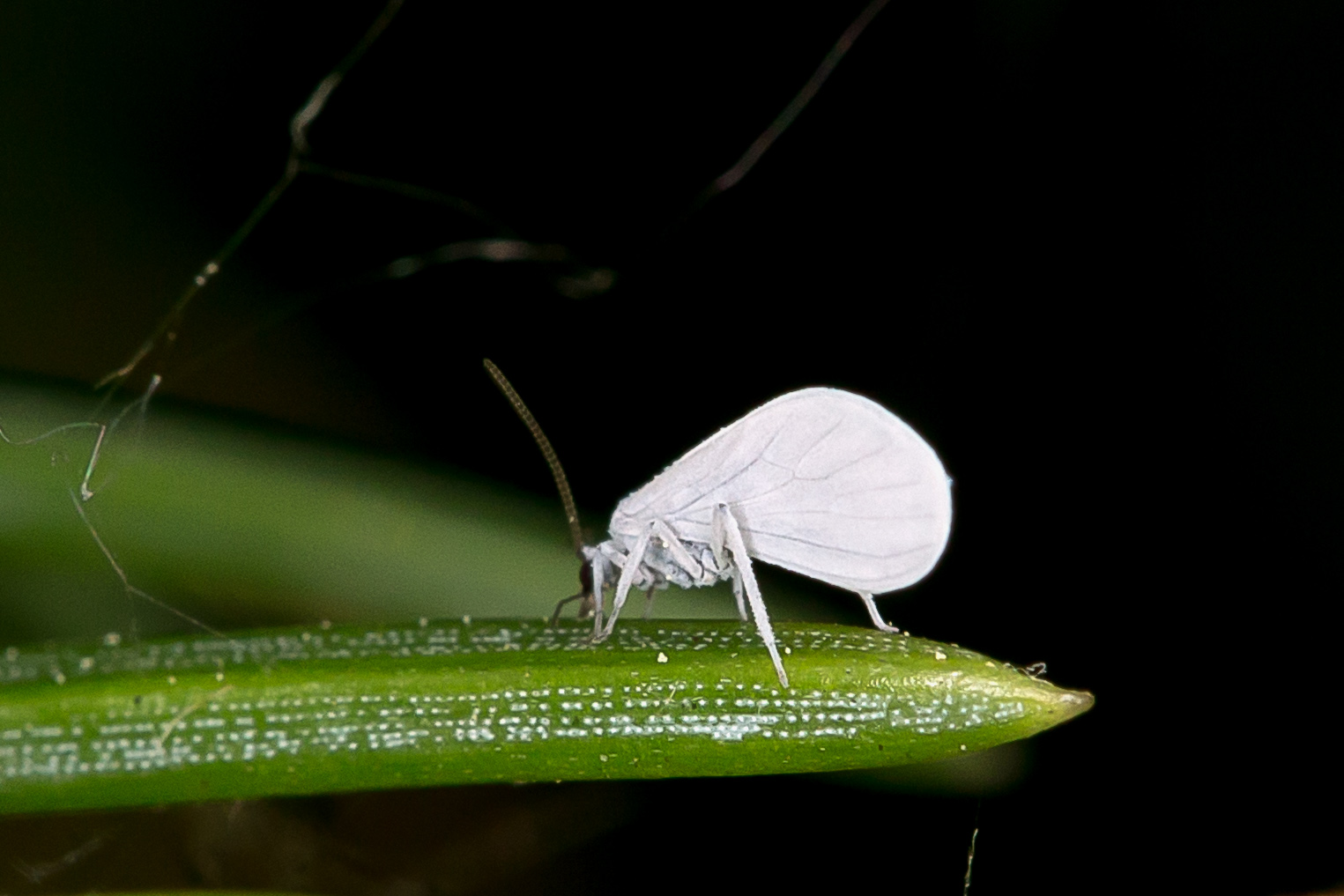 a species of Coniopterygidae, Lodz(Poland)